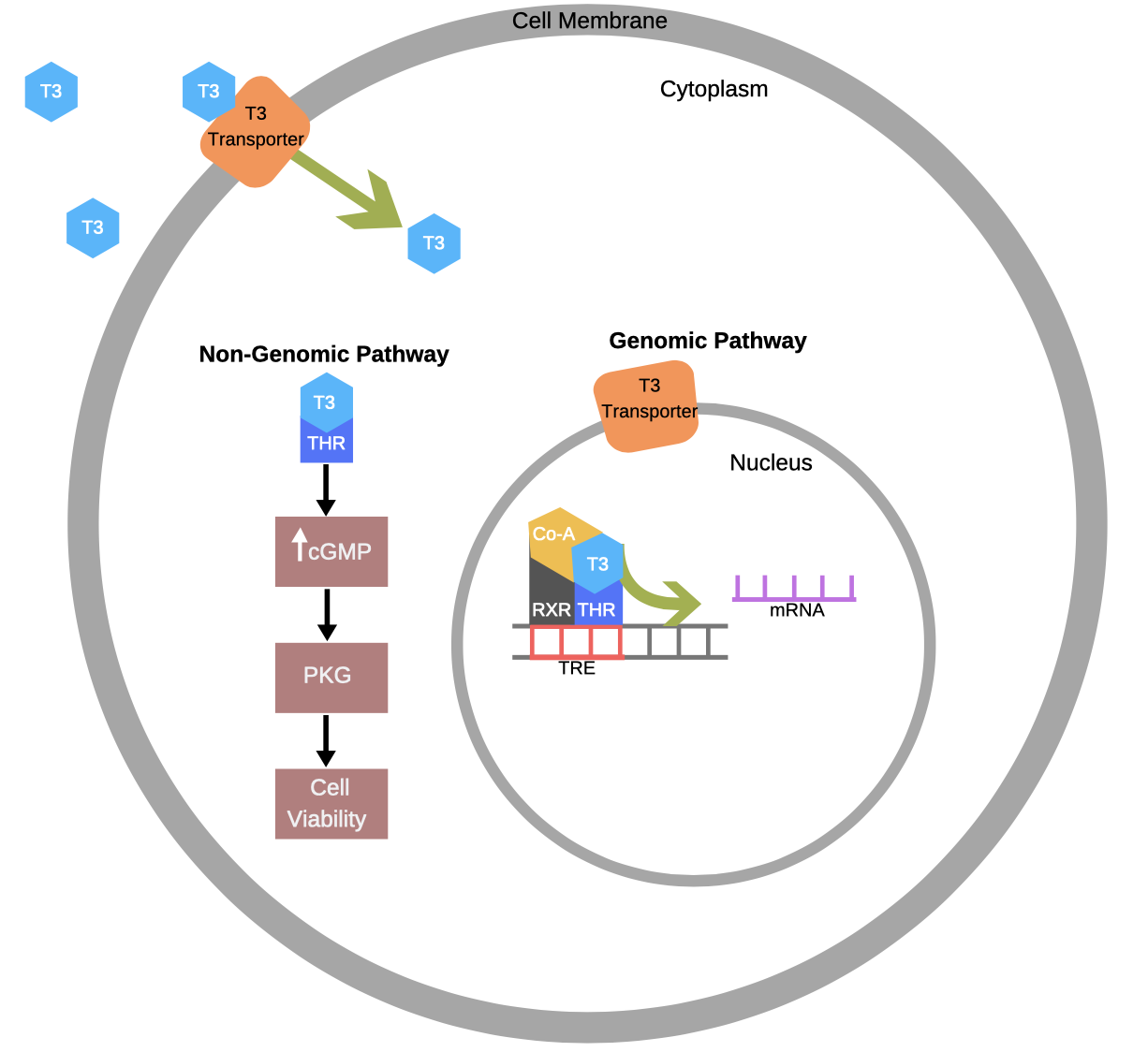 This is an illustration of the genomic and non-genomic signaling pathways activated by thyroid hormone.